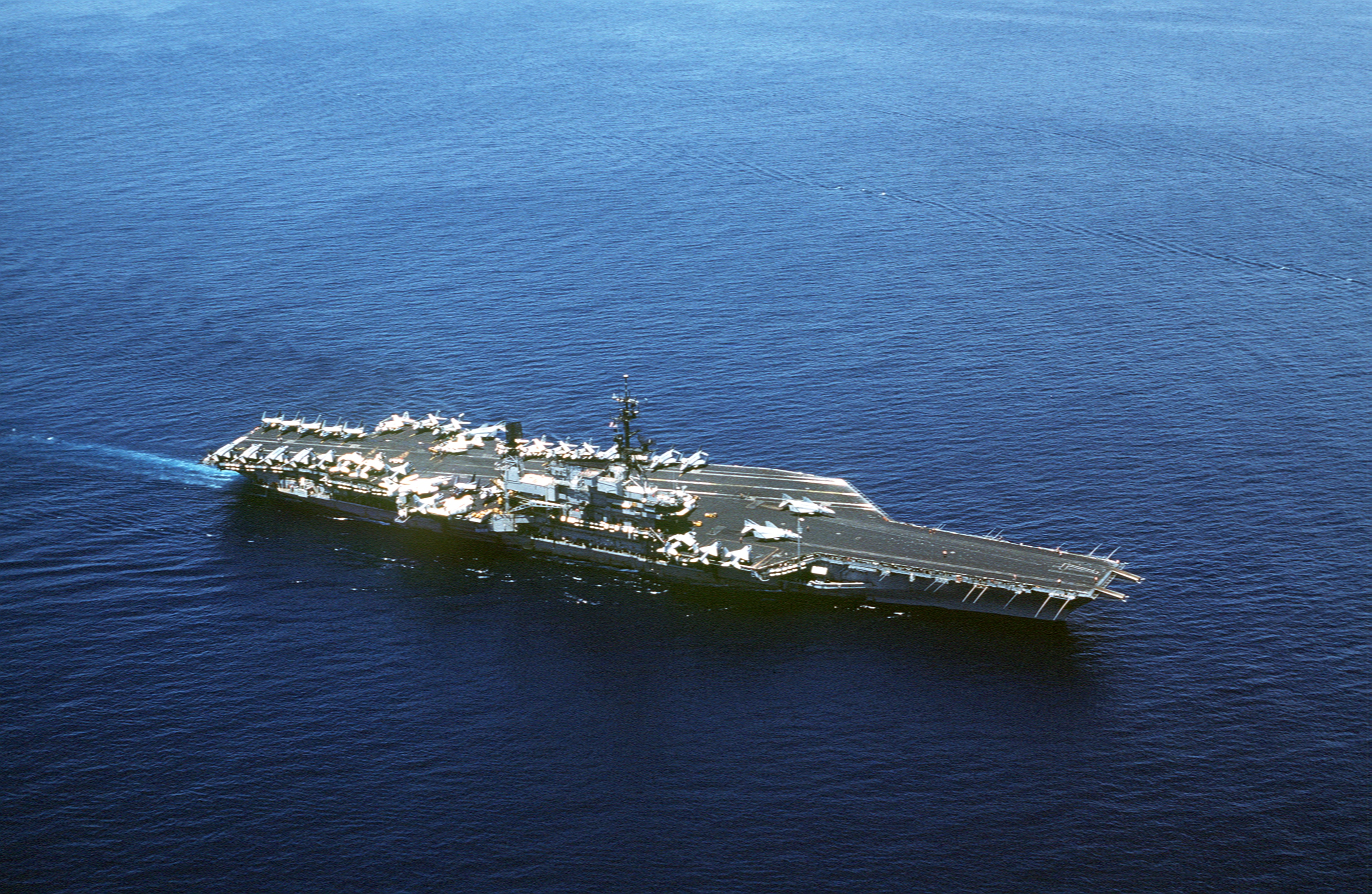 The U.S. Navy aircraft carrier USS Midway (CV-41) underway in 1985. Midway, with assigned Carrier Air Wing 5 (CVW-5), was deployed to the Western Pacific and the Indian Ocean from 10 June to 14 October 1985.